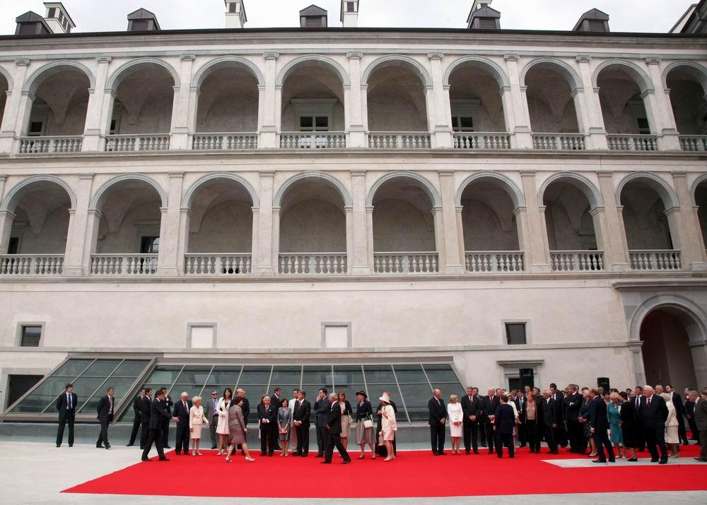 Inner yard of Royal Palace of Lithuania in Vilnius